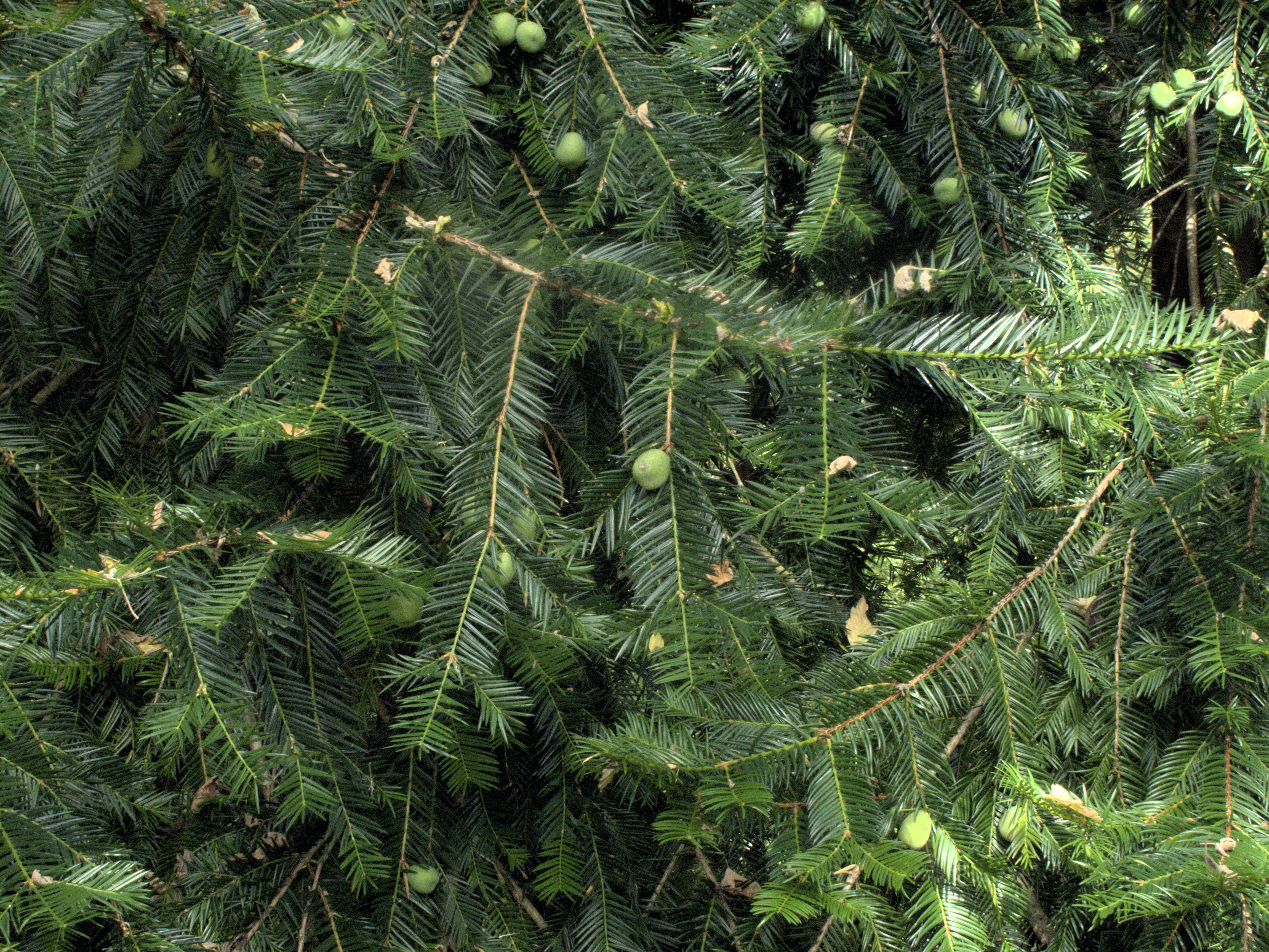 Torreya californica—California nutmeg. A century ago when people still darned socks it would not have been necessary to explain that darning eggs were also known as "nutmegs", a legacy of a long line of Yankee pedlars who traveled throughout the United States during the 18th and 19th centuries. The name still persists as the nickname of Connecticut as the "Nutmeg State." Photographed at Regional Parks Botanic Garden located in Tilden Regional Park near Berkeley, CA.